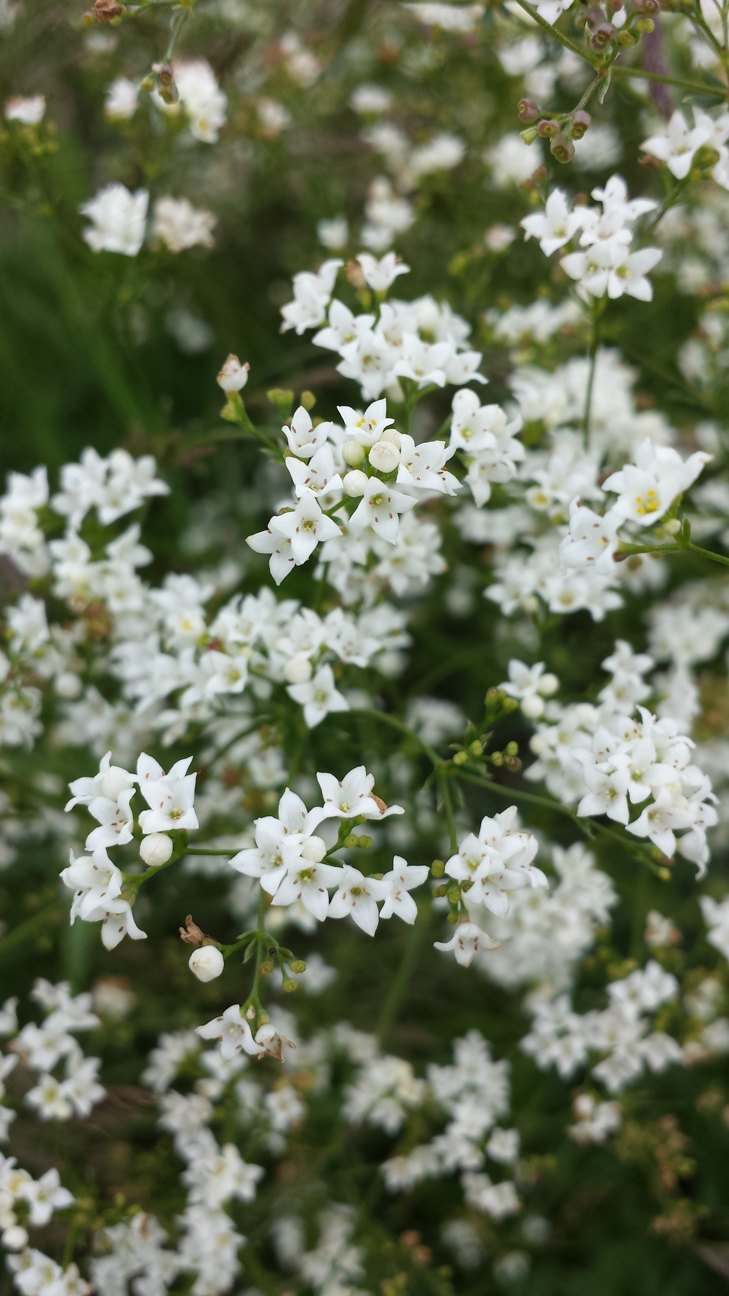 Florescence Taxon: Galium glaucum s. str. (sensu Fischer et al. EfÖLS 2008 ISBN 978-3-85474-187-9) Location: natural reserve "Mühlberg" near Goggendorf, district Hollabrunn, Lower Austria - ca. 260 m a.s.l. Habitat: dry grassland on Loess